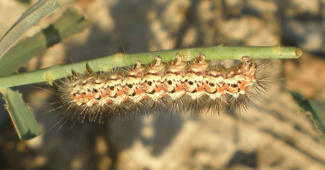 Near Tàrrega, Lleida, Catalonia.